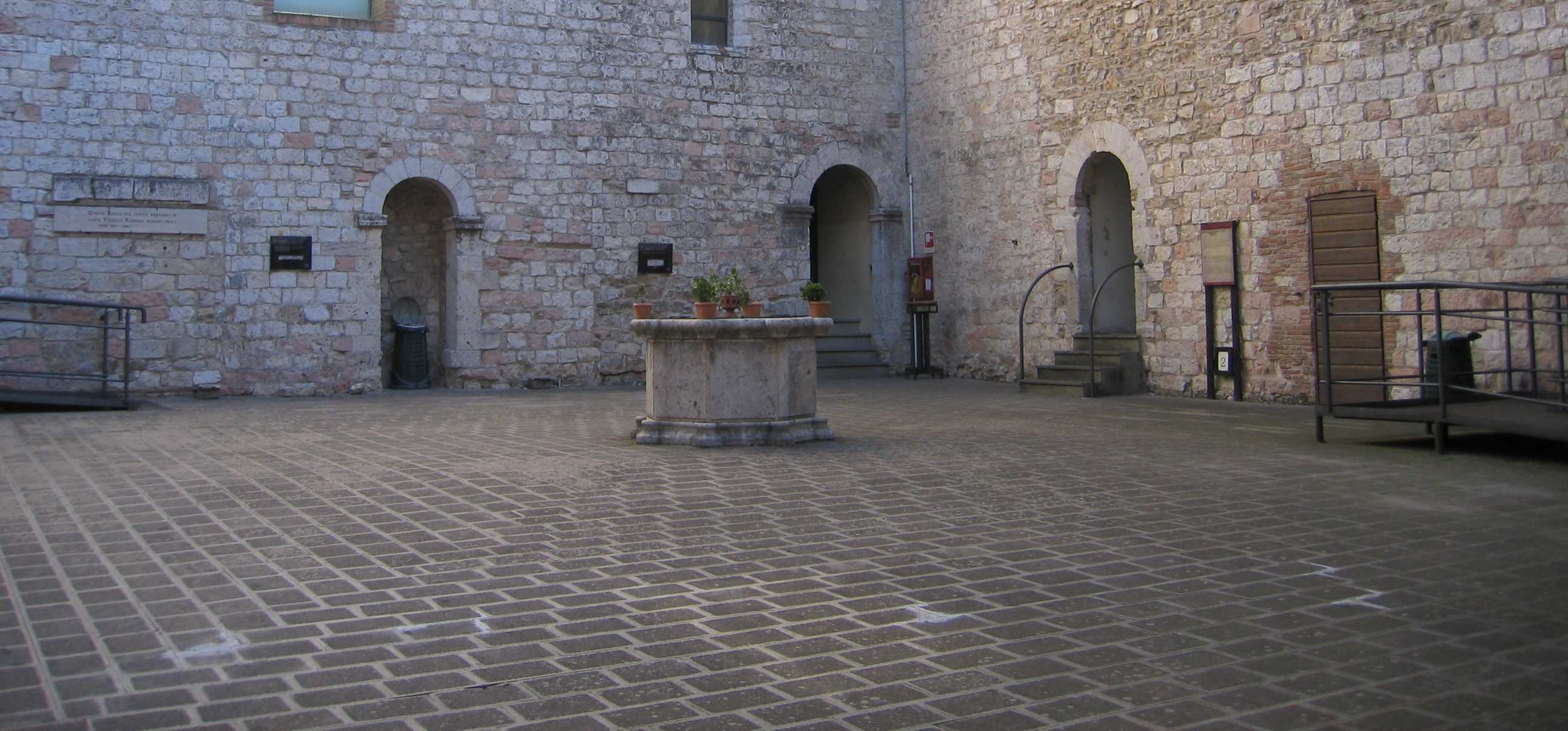 Fortress of Narni; The inner courtyard of the castle.